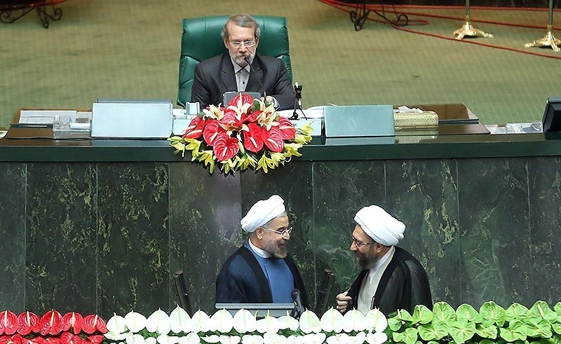 Hassan Rouhani inauguration as President of Iran